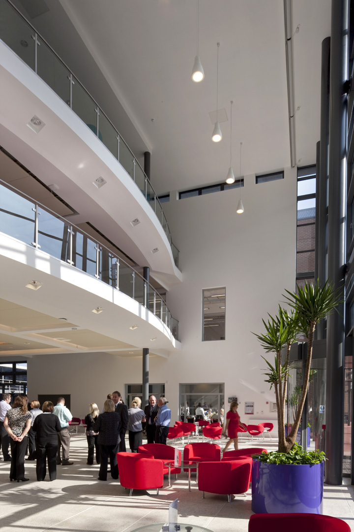 The hub interior shot from the cafe